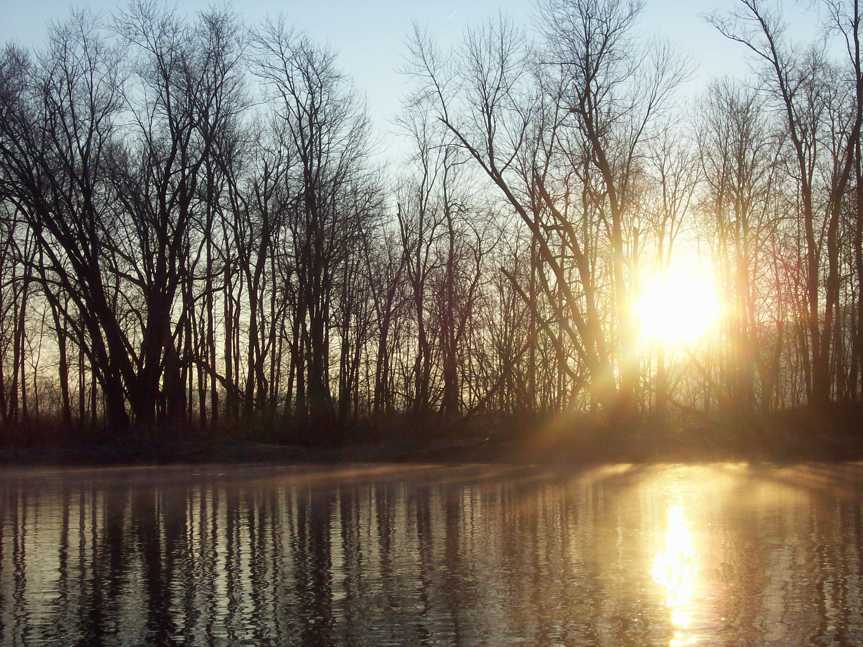 I took this photograph User:WiiWillieWikimyself with a digital camera. It is of the sunrise from Penns Creek in Union County, PA.